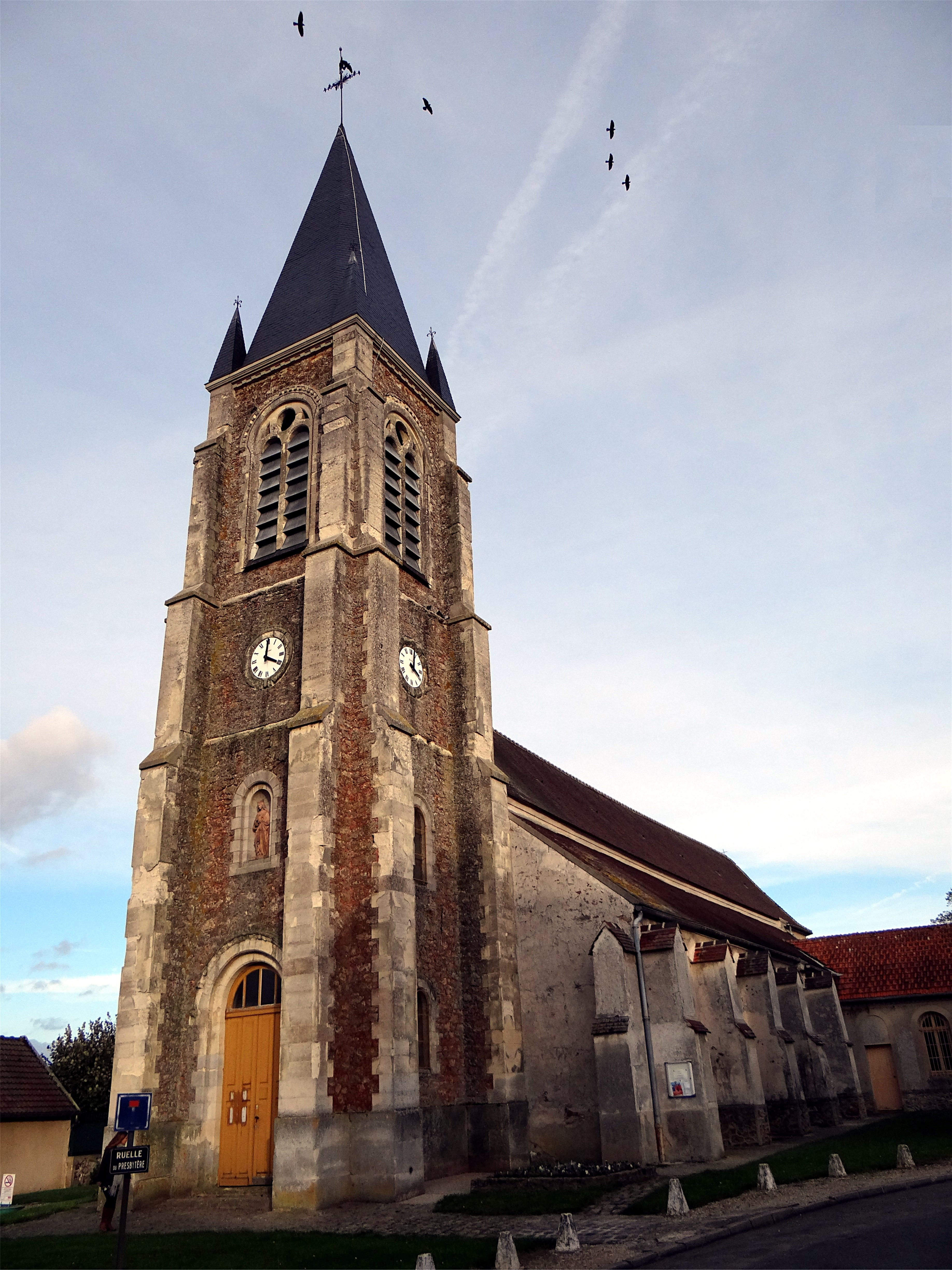 Church of St. Medard, Boutigny, Seine-et-Marne, France.